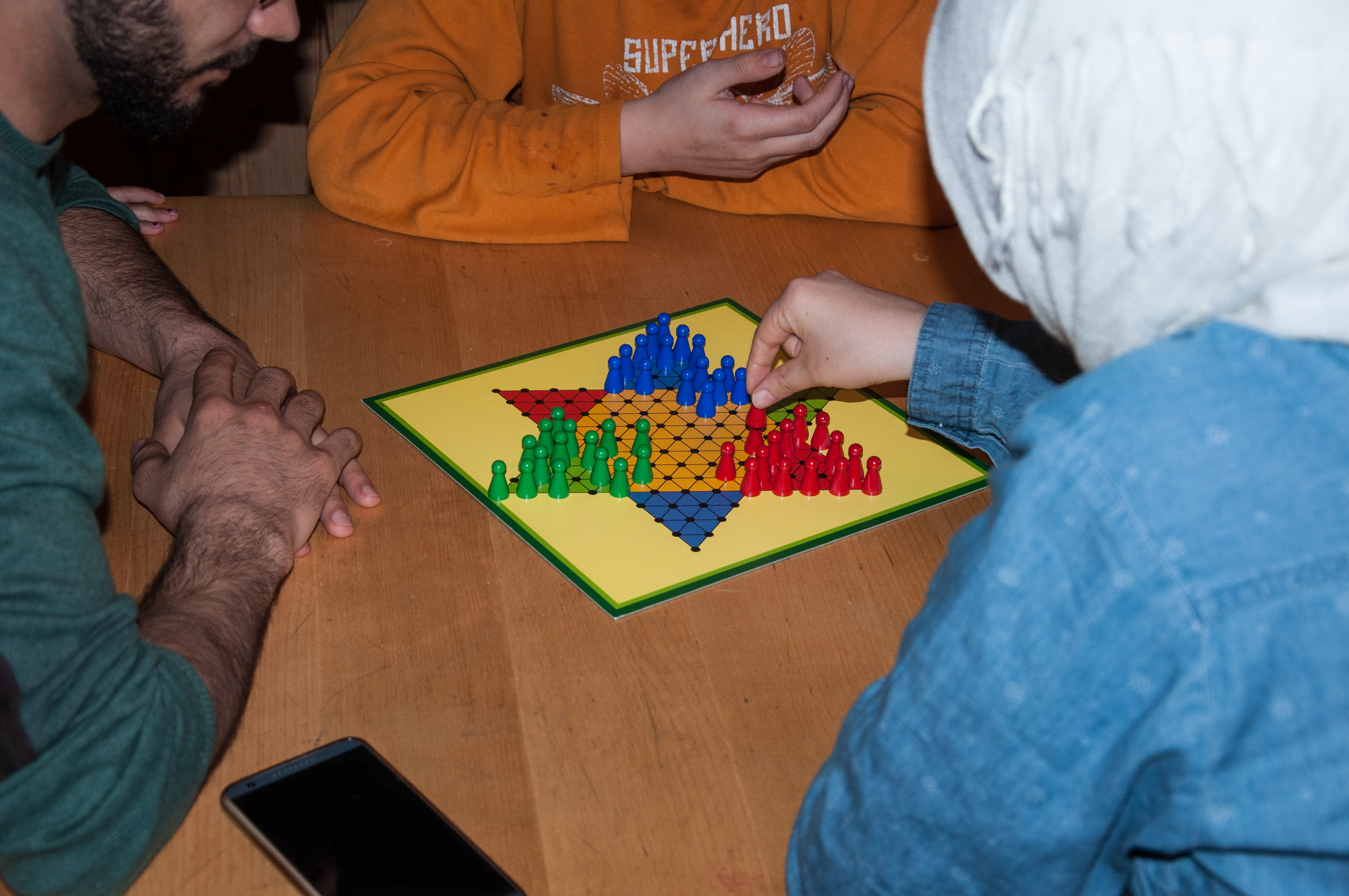 Three people playing Chinese checkers